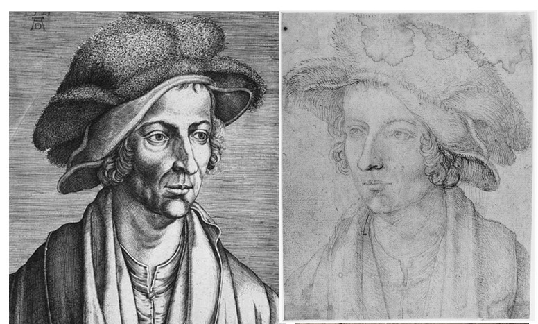 Portraits of the Flemish painter Joachim Patinir. Engraving by Aegidius Sadeler (left) from the drawing made by Dürer in 1521 (right); (composition with Commons image material).